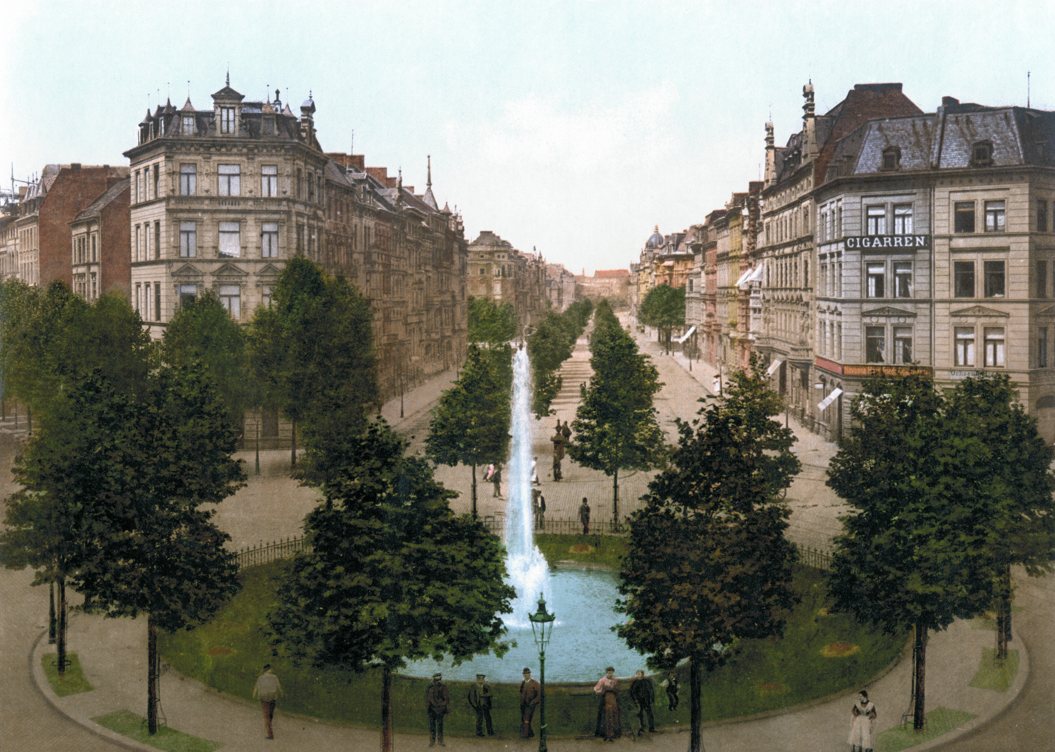 Hohenstaufenring, Cologne, the Rhine, Germany. Around 1900